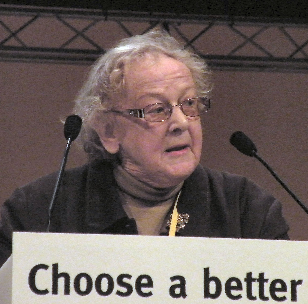 Margaret Sharp, Baroness Sharp of Guildford addressing a Liberal Democrat conference in the Harrogate International Centre